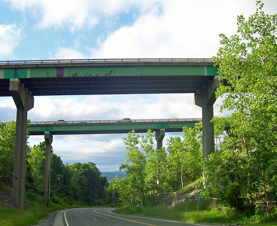 Photographed by Daniel Case 2006-06-10